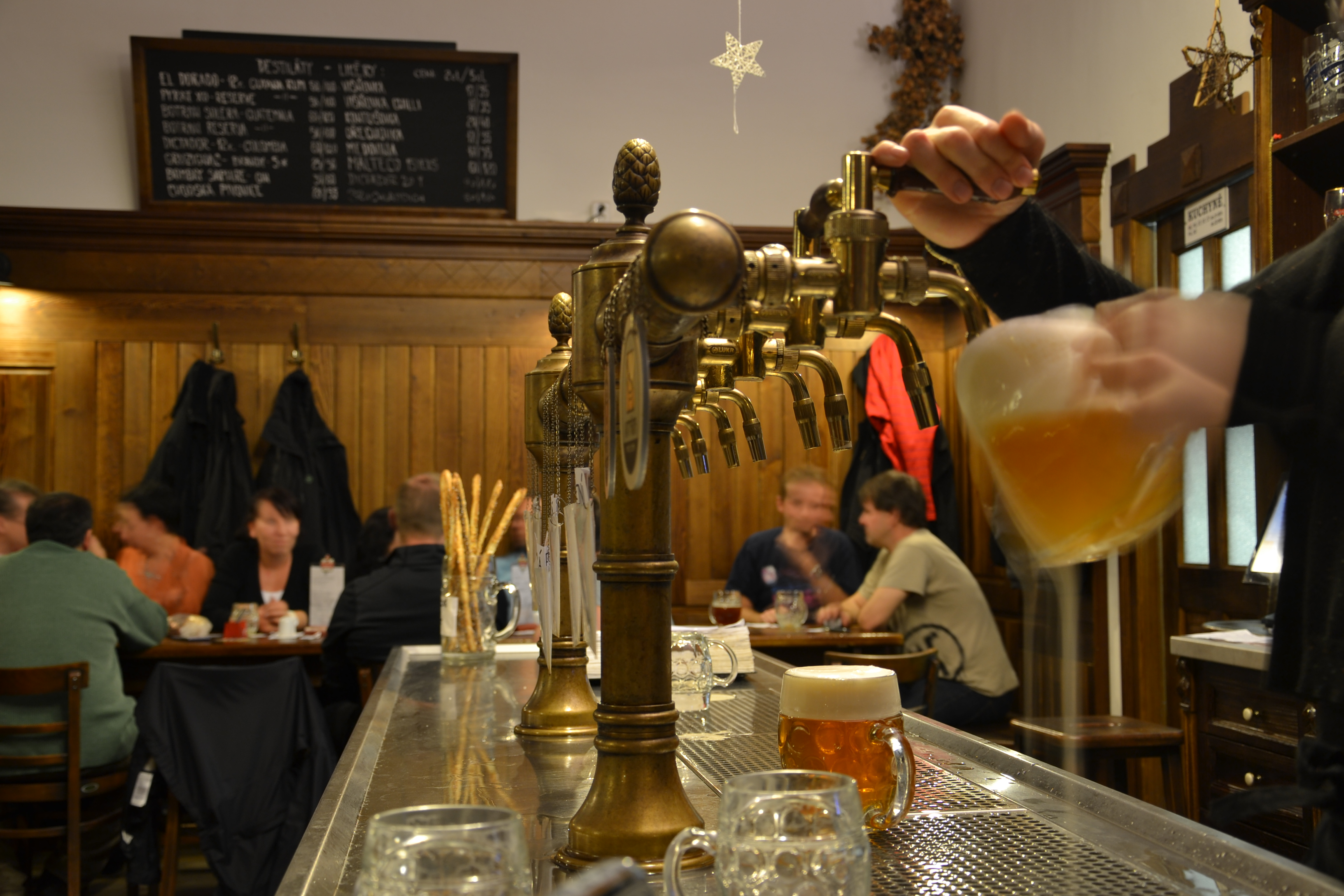 Pub in Hradec Králové (Königgrätz), Czech Republic